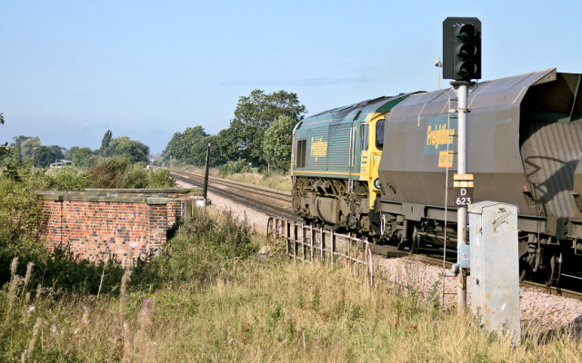 Railway - Mauds Bridge. Coal train heads west on the Scunthorpe - Doncaster railway line